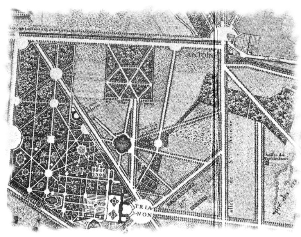 Map of Versailles - Delagrive 1746 - Detail of Trianon